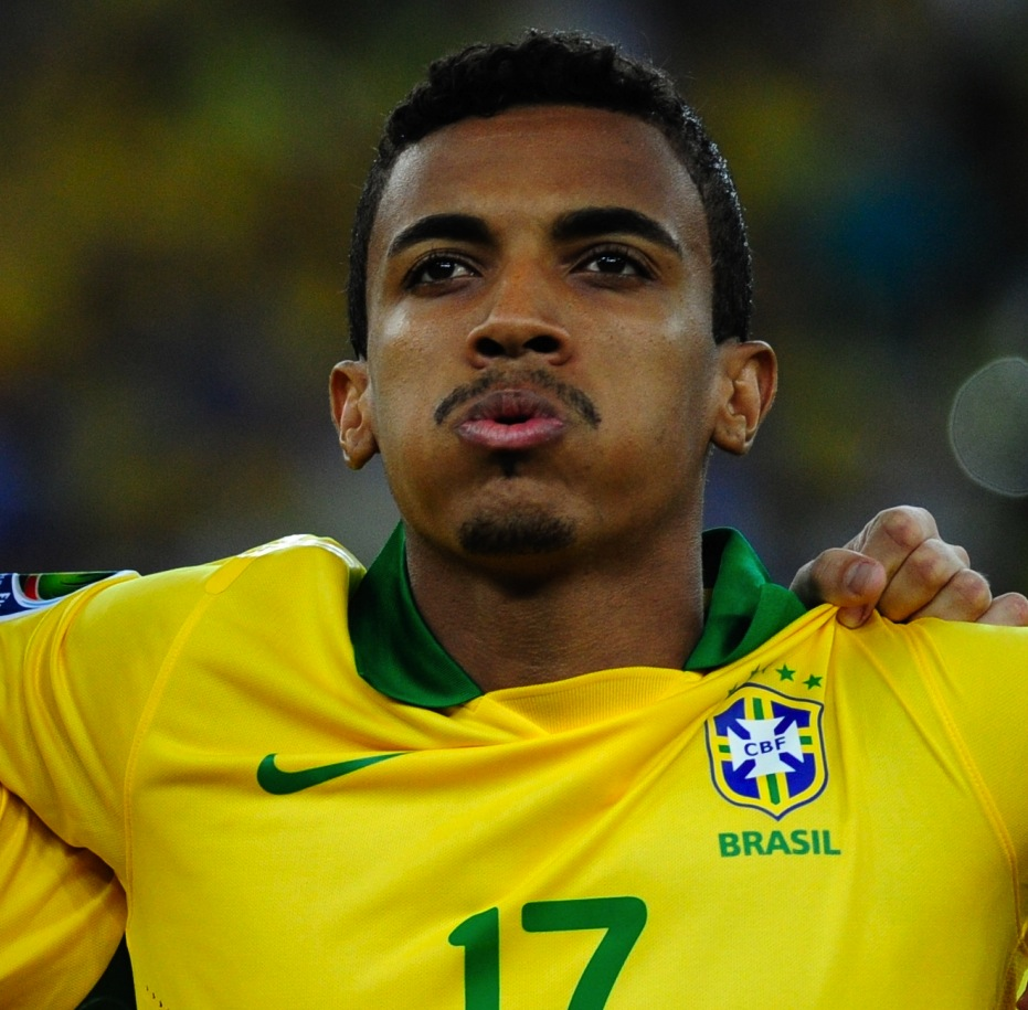 Luiz Gustavo before the 2013 FIFA Confederations Cup